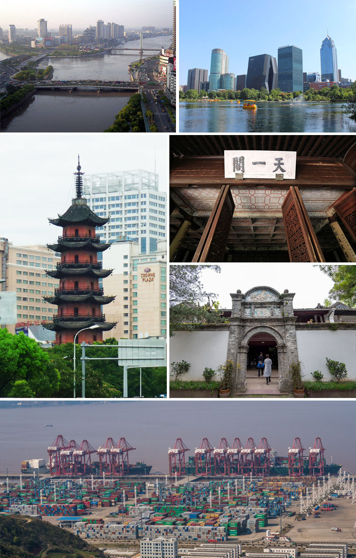 Head image for Chinese article Ningbo